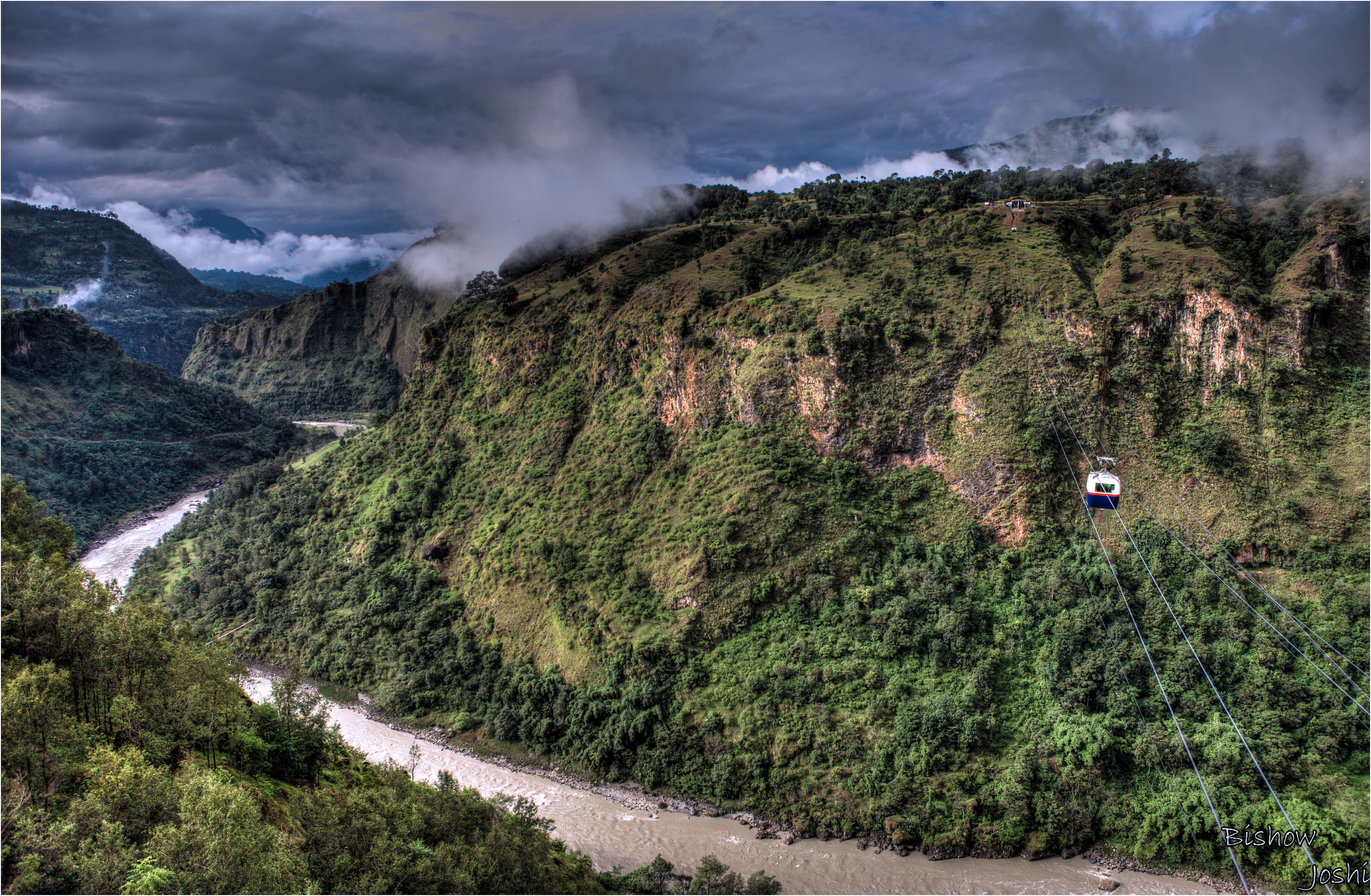 Cable car transportation to connect Kushma,Parbat & Balewa, baglung